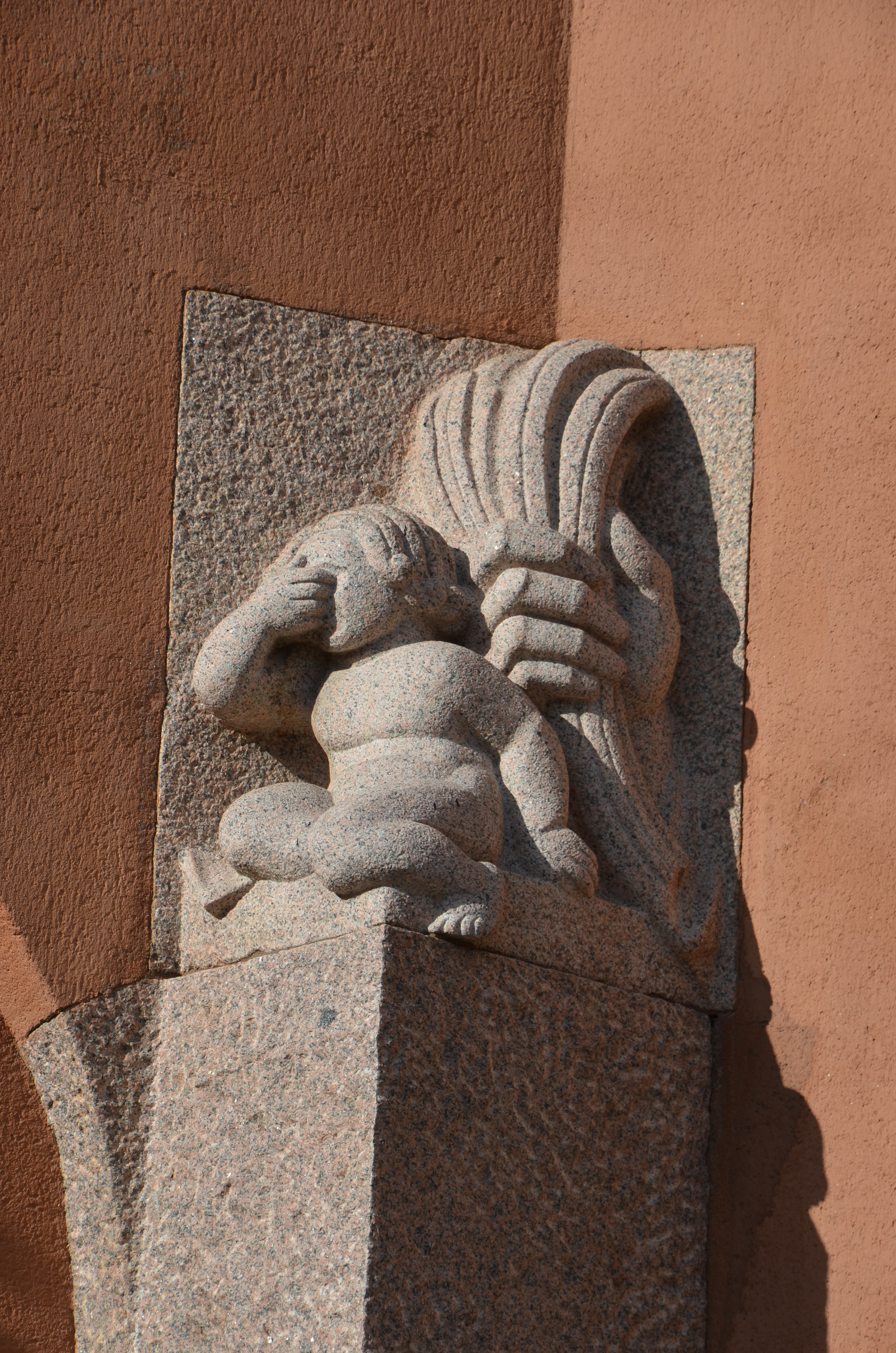 Arthur Gerles fasadskulptur på Vasa gymnasium i STockholm, granit, omkring 1927